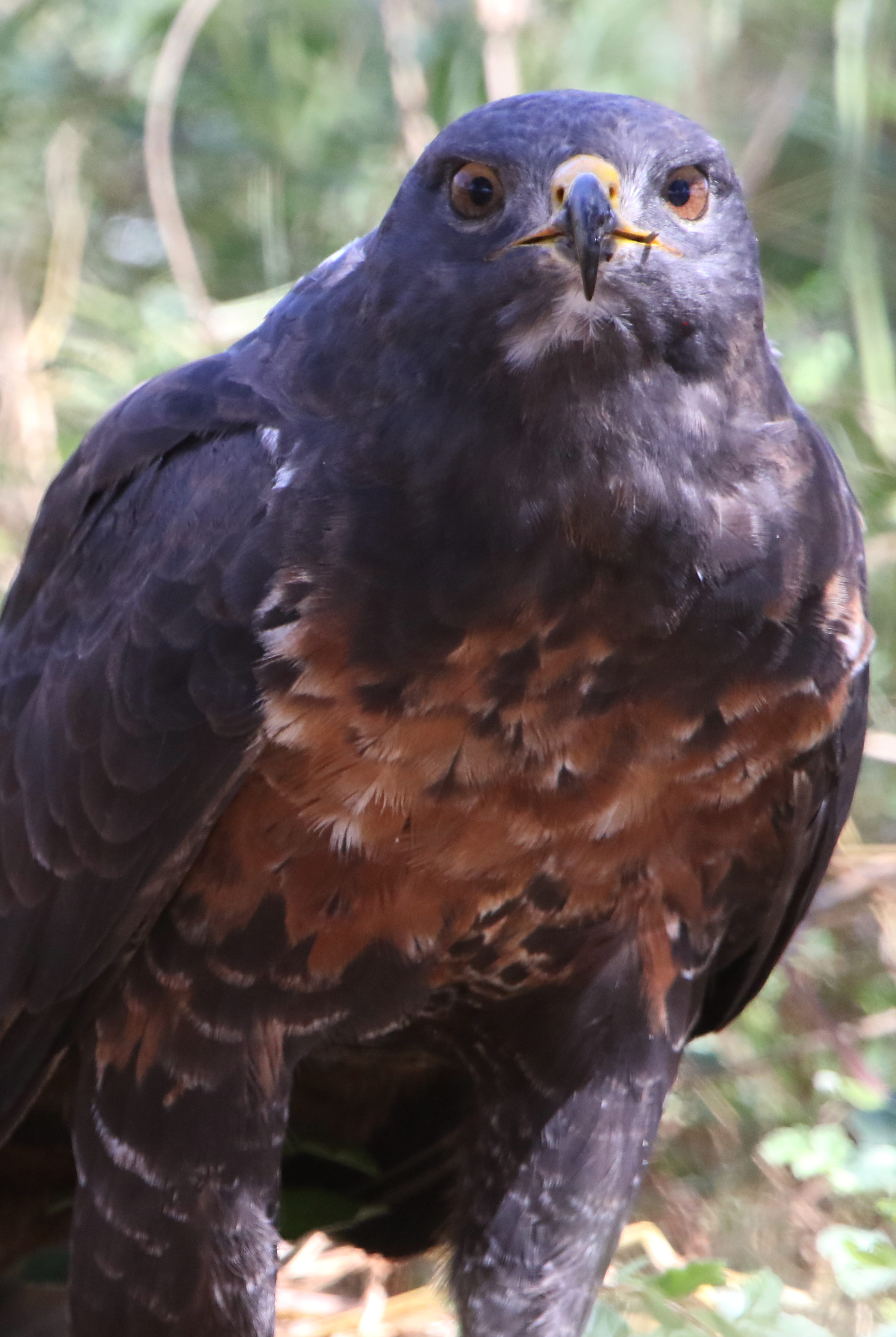 Jackal buzzard, Buteo rufofuscus, at Kgalagadi Transfrontier Park, Northern Cape, South Africa